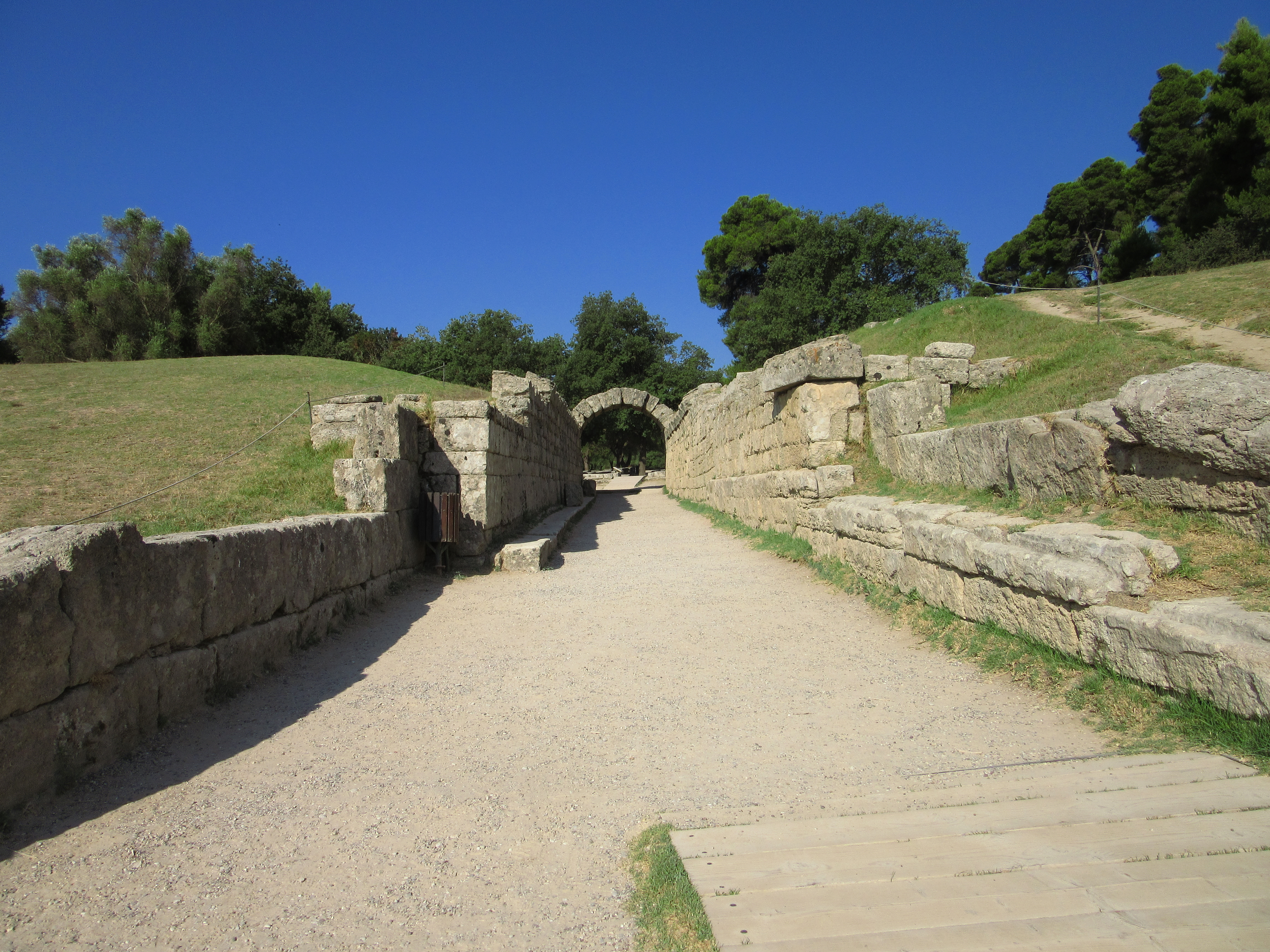 Entrance of the Stadium in Olympia, Greece